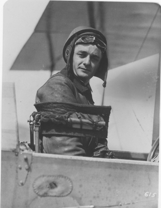 Townsend Dodd seated in his aircraft. From the San Diego Air and Space Museum Archive